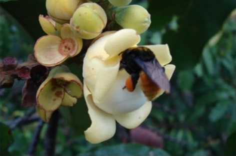 Eufriesea flaviventris female: Approach to flowers of Brazil nut (Bertholletia excelsa) by distinct bee species in a commercial cultivation in the county of Itacoatiara, state of Amazonas, Brazil, 2007